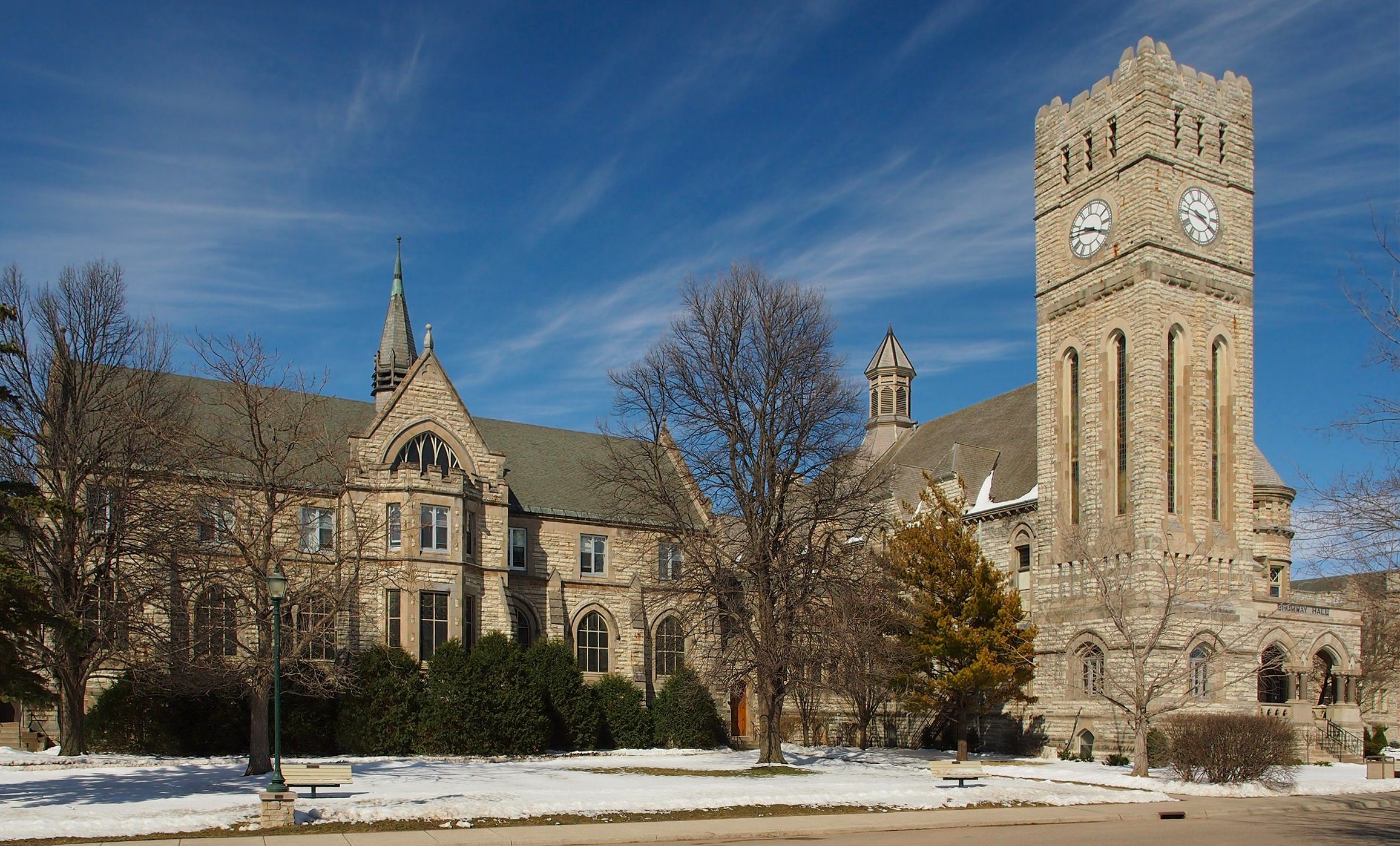 Shumway Hall & Morgan Refectory, Shattuck–St Mary's, Faribault, Minnesota, USA. Viewed from the southwest.